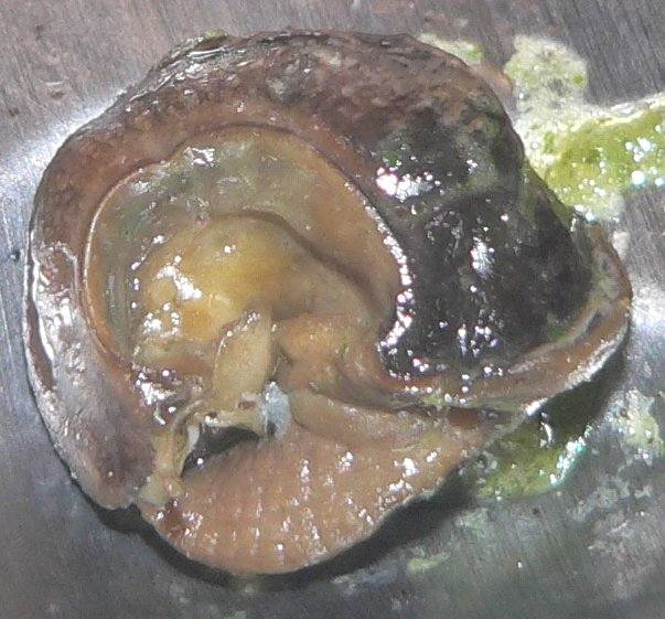 Escargot out of its shell